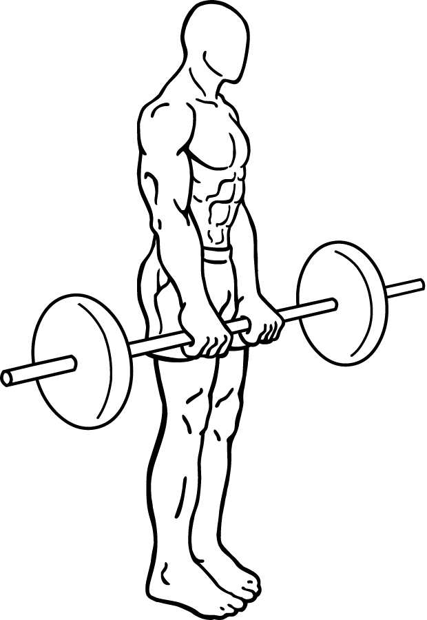 an exercise of hip and thigh